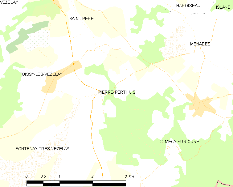 Map of French municipality Pierre-Perthuis